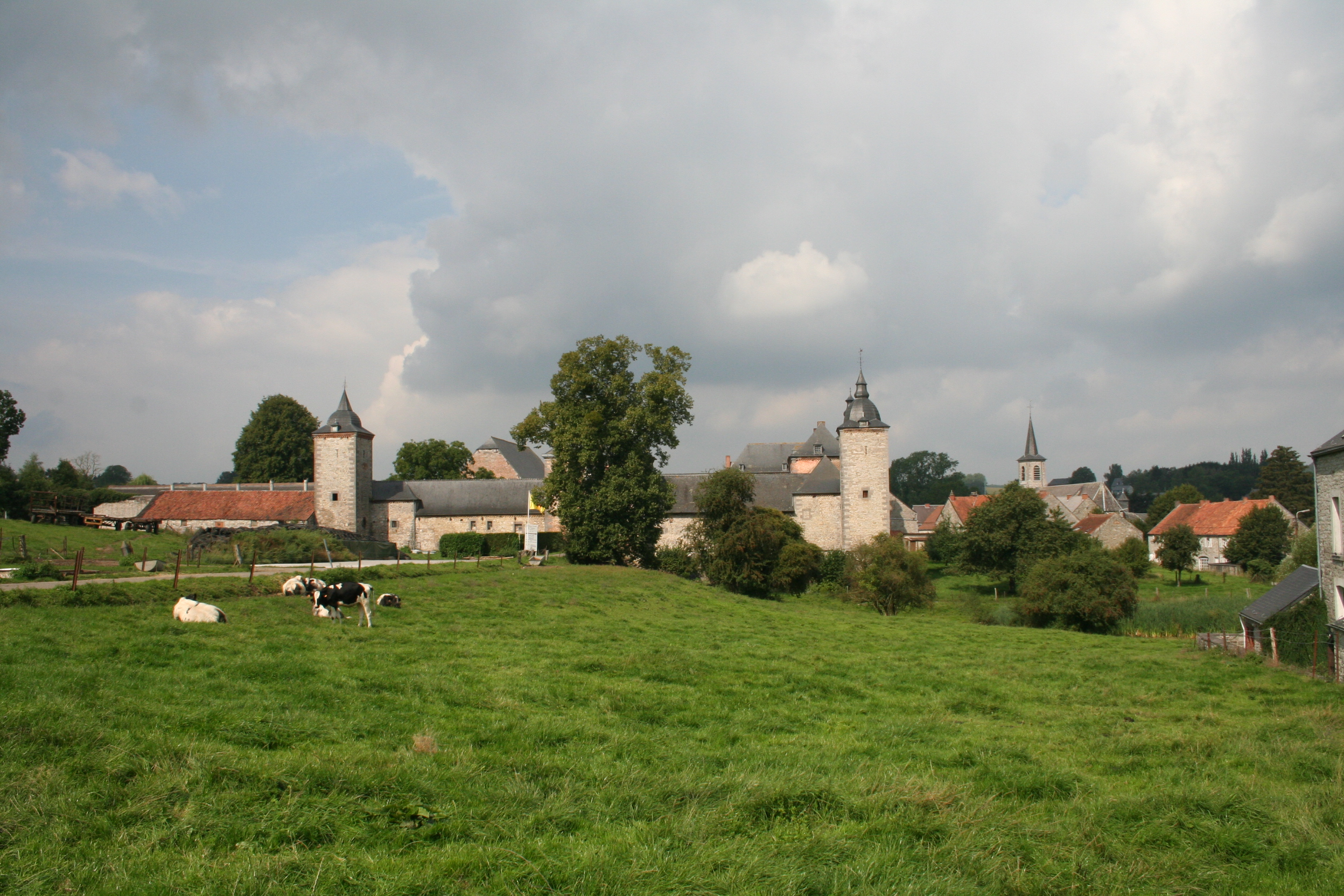 Falaën (Belgium), the castle-farm (XVIIth century) and the old village.